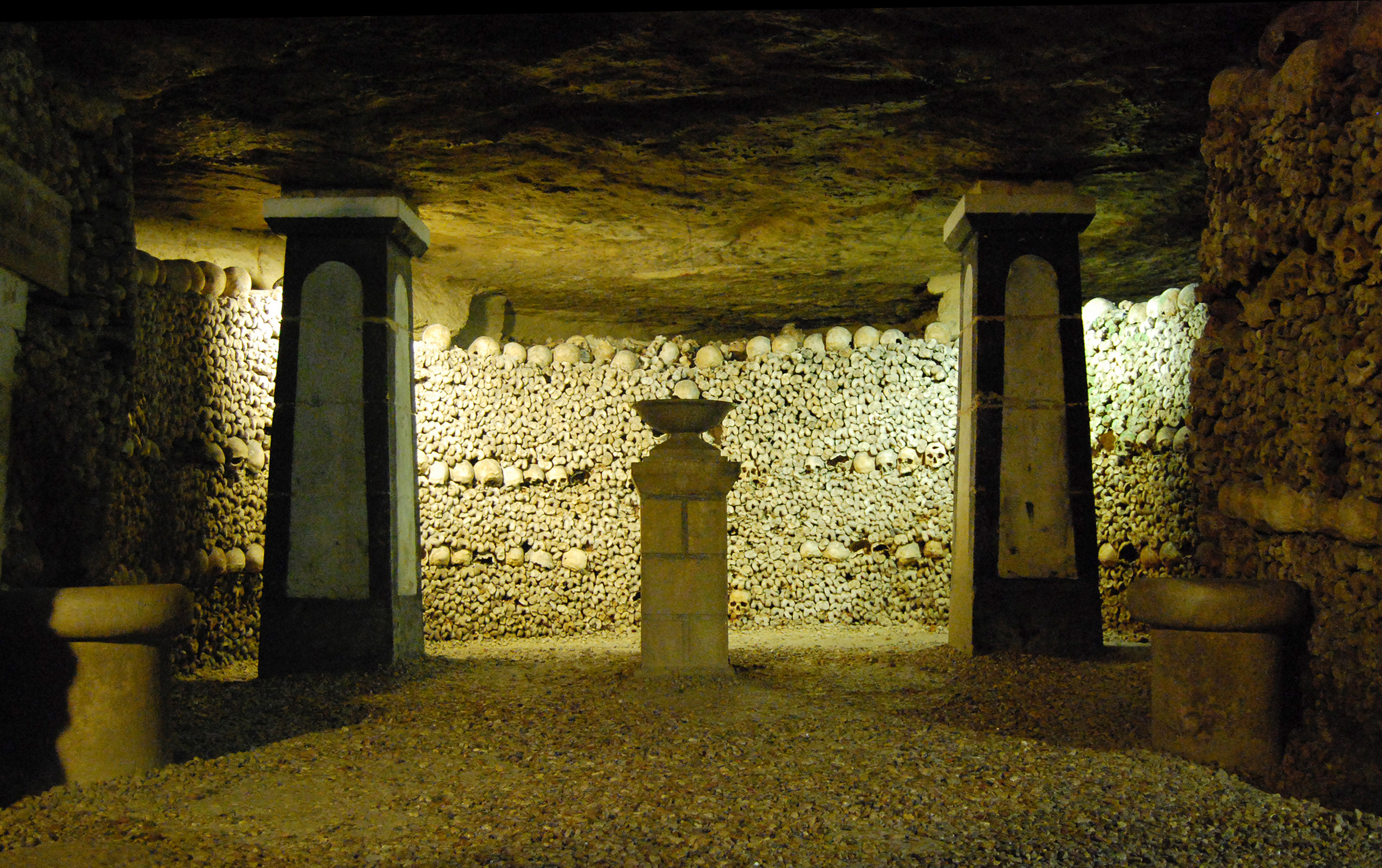 Catacombs of Paris